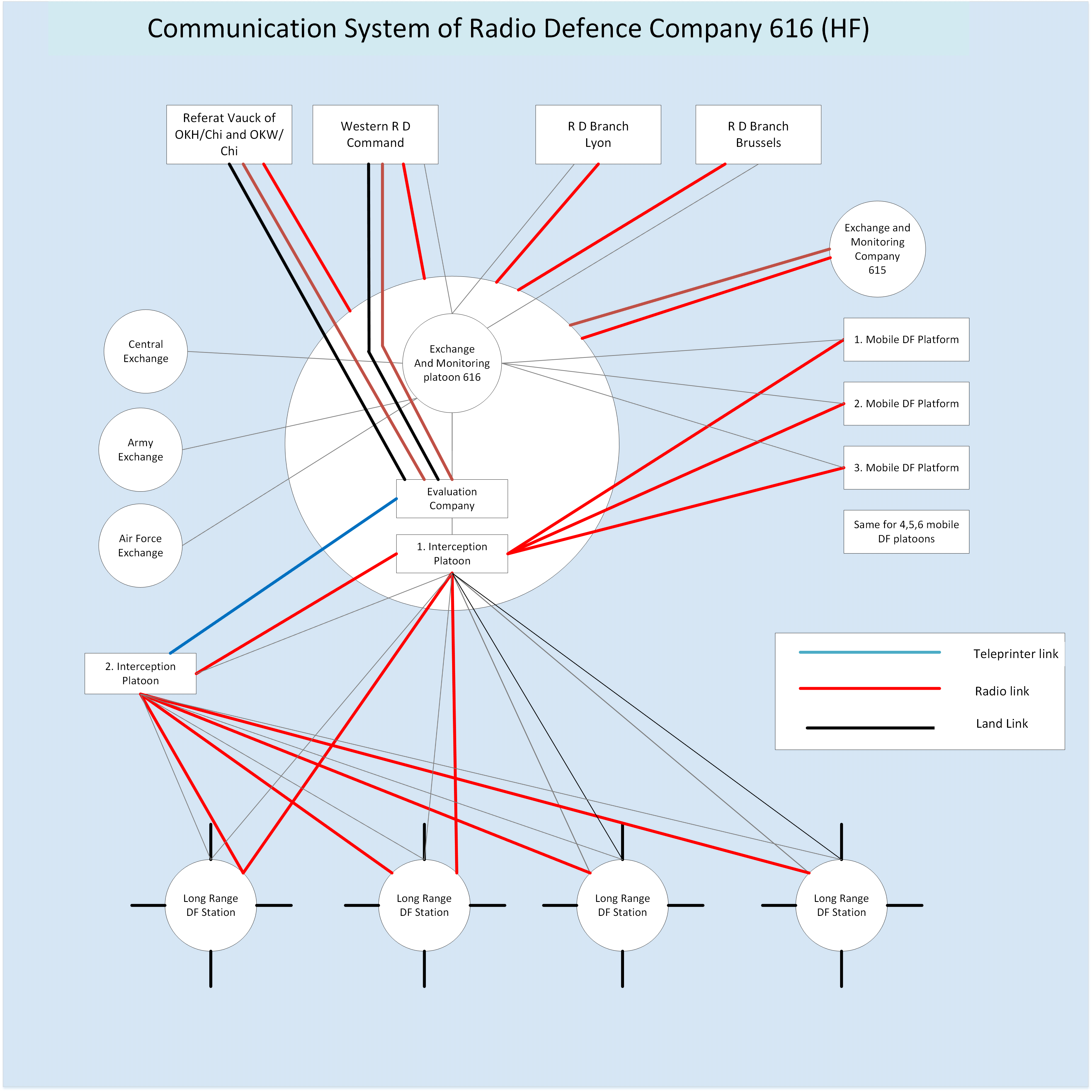 Communication diagram of German radio defence company 616 from World War 2. p.33 of IF-176 Seabourne report, part II, Operations and techniques of the radio defence corps of the German Wehrmacht.